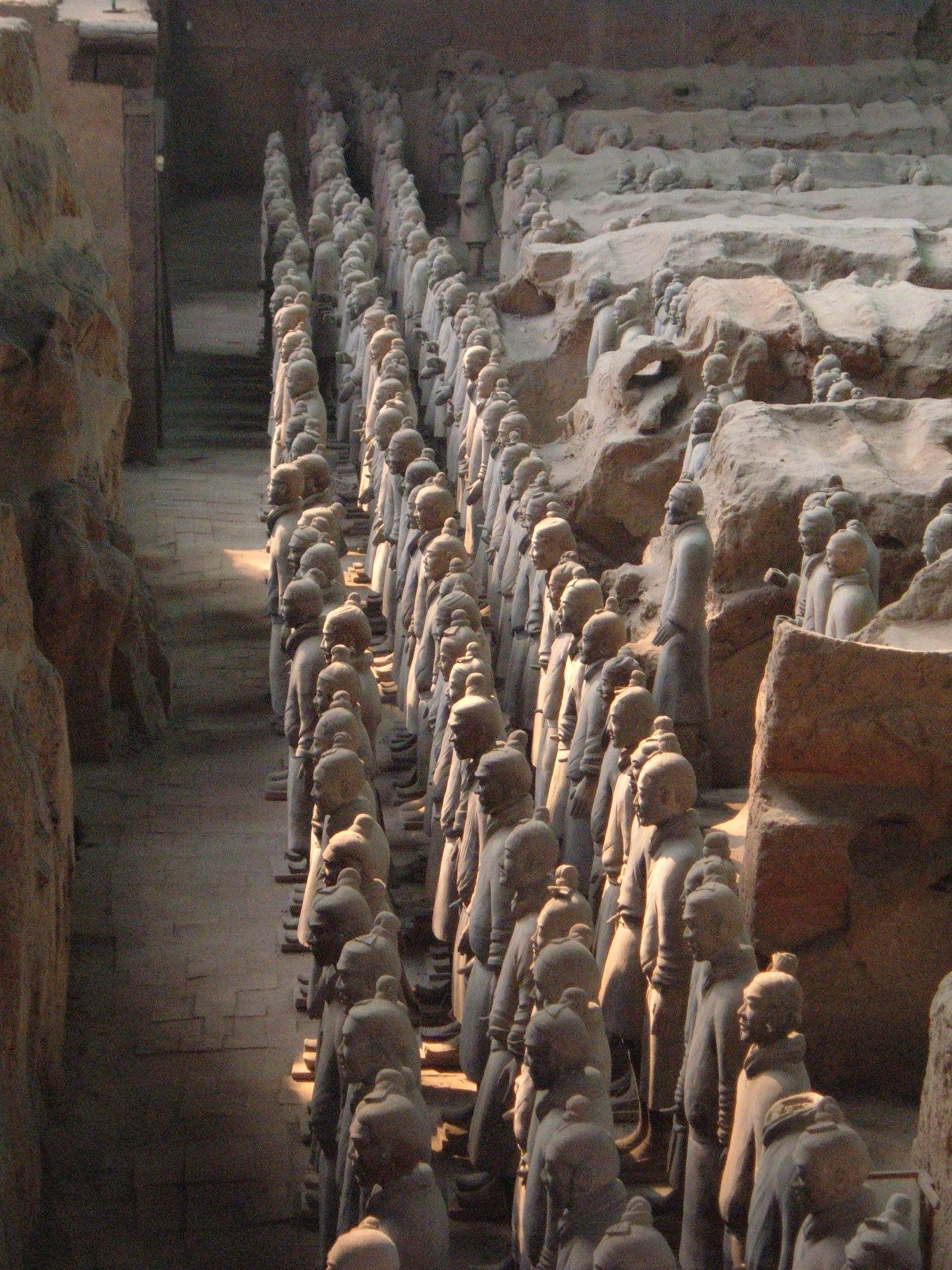 The front rank of the Terracotta Army in Pit 1 at the Mausoleum of the First Qin Emperor near Xi'an, PRC.